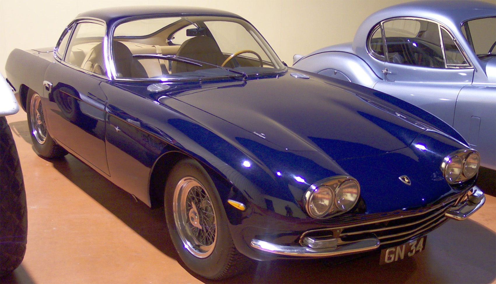 Lamborghini 350 GT Own picture